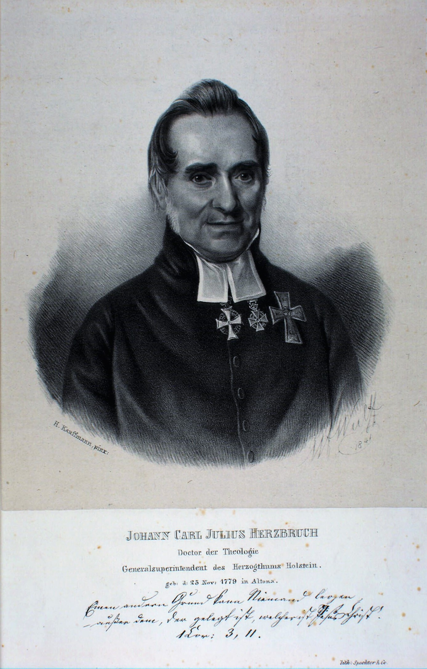 Herzbruch, Johan Carl Julius (25.11.1799-1866) dr. theol. Id DP015610.tif, from Billedsamlingen. Danske portrætter. Herzbruch, Johan Carl Julius (1799-1866) 2°, Det Kgl. Biblioteks billedsamling